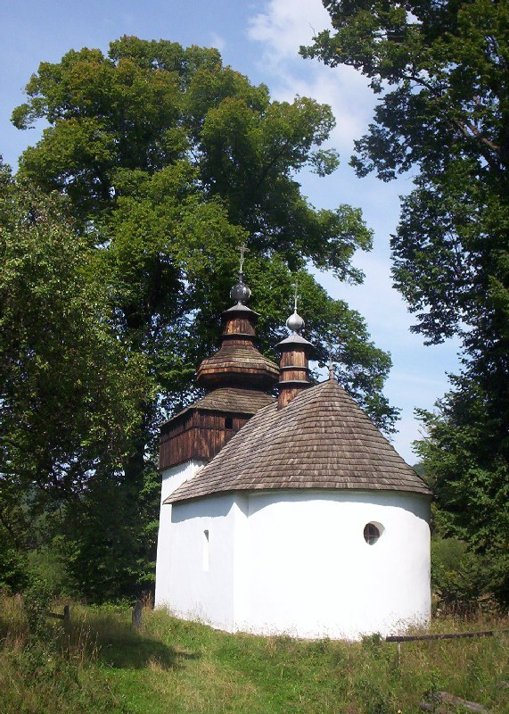 Greek catholic church in Bieliczna - Beskid Niski, Poland.